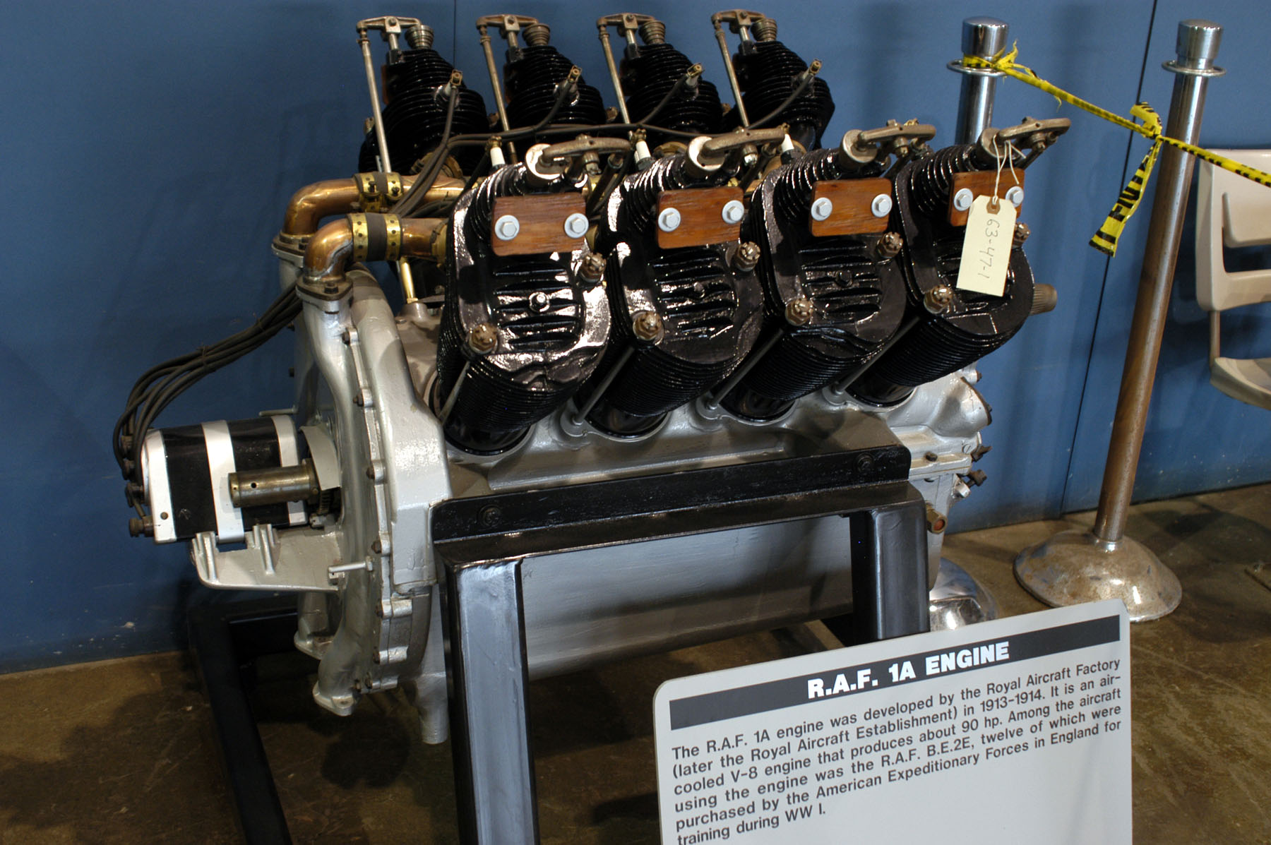 Royal Aircraft Factory R.A.F. 1A on display in the Research & Development Gallery at the National Museum of the United States Air Force.